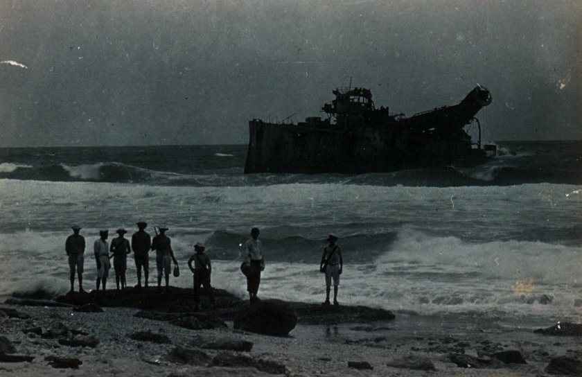 While escorting the first convoy of ANZAC troops bound for Europe on 9 November 1914 the Royal Australian Navy light cruiser HMAS Sydney engaged the infamous German commerce raider SMS Emden. The two light cruisers fought a 90 minute battle. The Emden’s guns had more range and fired first, but Sydney’s more powerful main guns pounded the Emden until it was disabled and beached on North Keeling Island. The Royal Australian Navy’s first great test of war ended in a comprehensive victory. The exhibition will open at the Australian National Maritime Museum 12 September 2014 and run until May 2015. ANMM collection 00003345